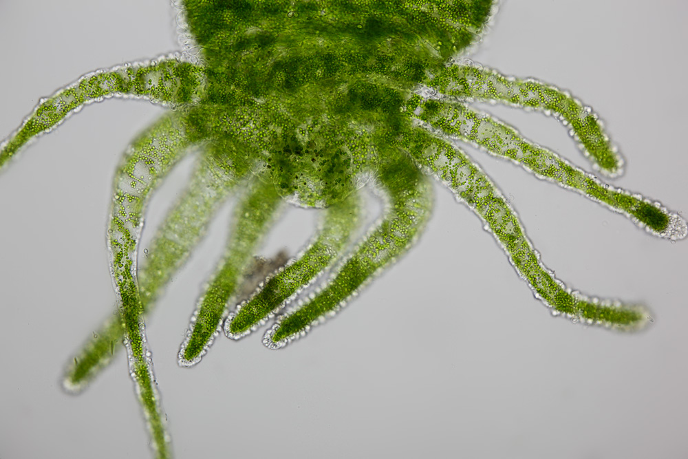 green Hydra, Hydra viridissima